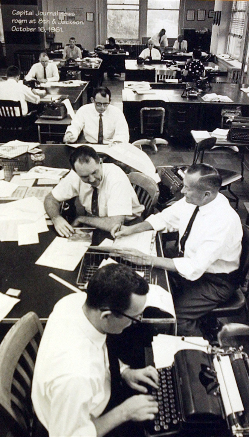 The newsroom of the Topeka Capital–Jornal (Topeka, Kansas), October 1961.